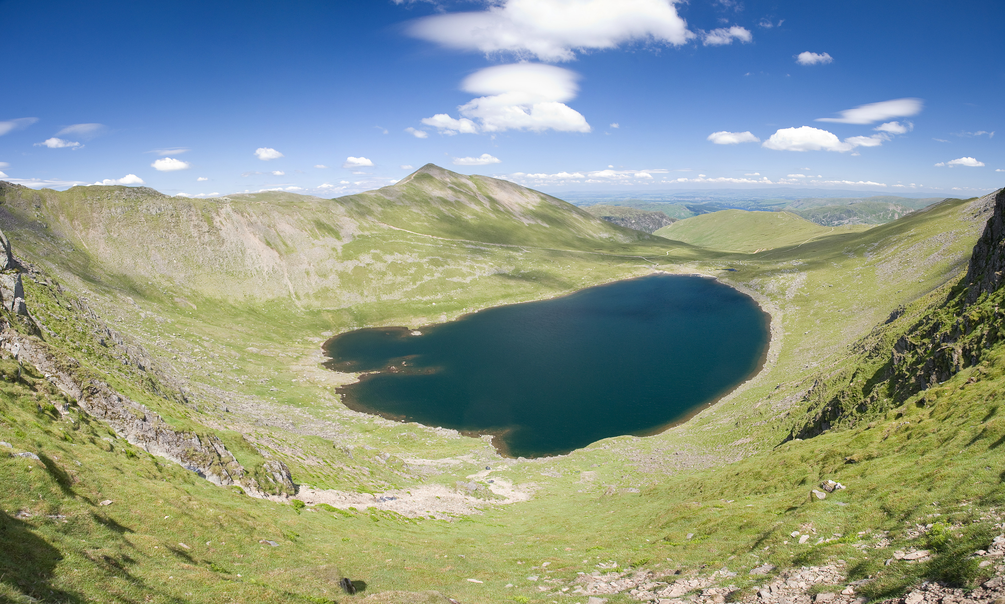 Red Tarn from near the summit of Helvellyn in the Lake District, England.